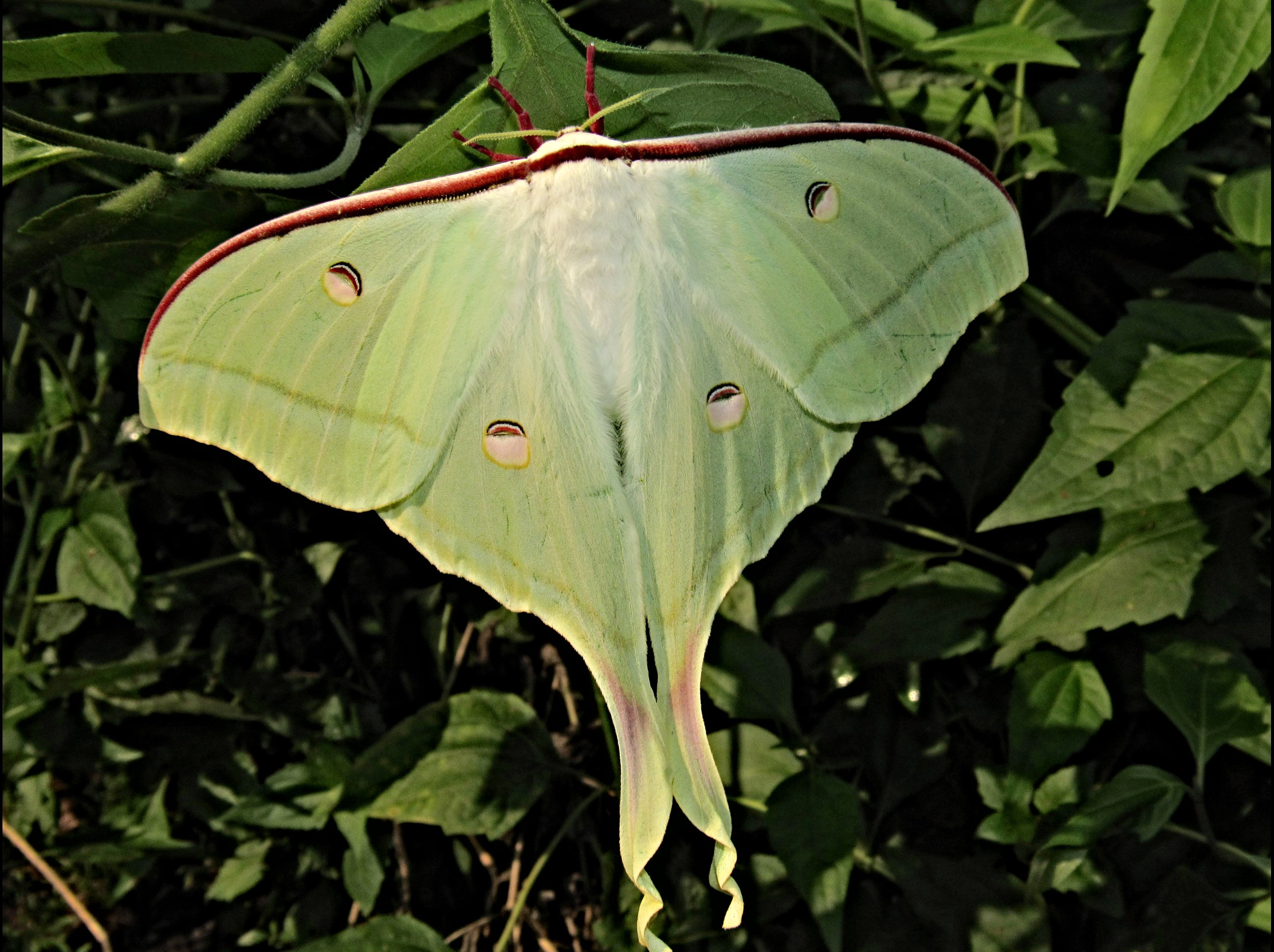 Common name : Indian Moon Moth Scientific name : Actias selene (Hübner,1807) Family : Saturniidae Description : Adult of Indian Moon Moth Resting on plants. Location : Vansada National park,Gujarat,India